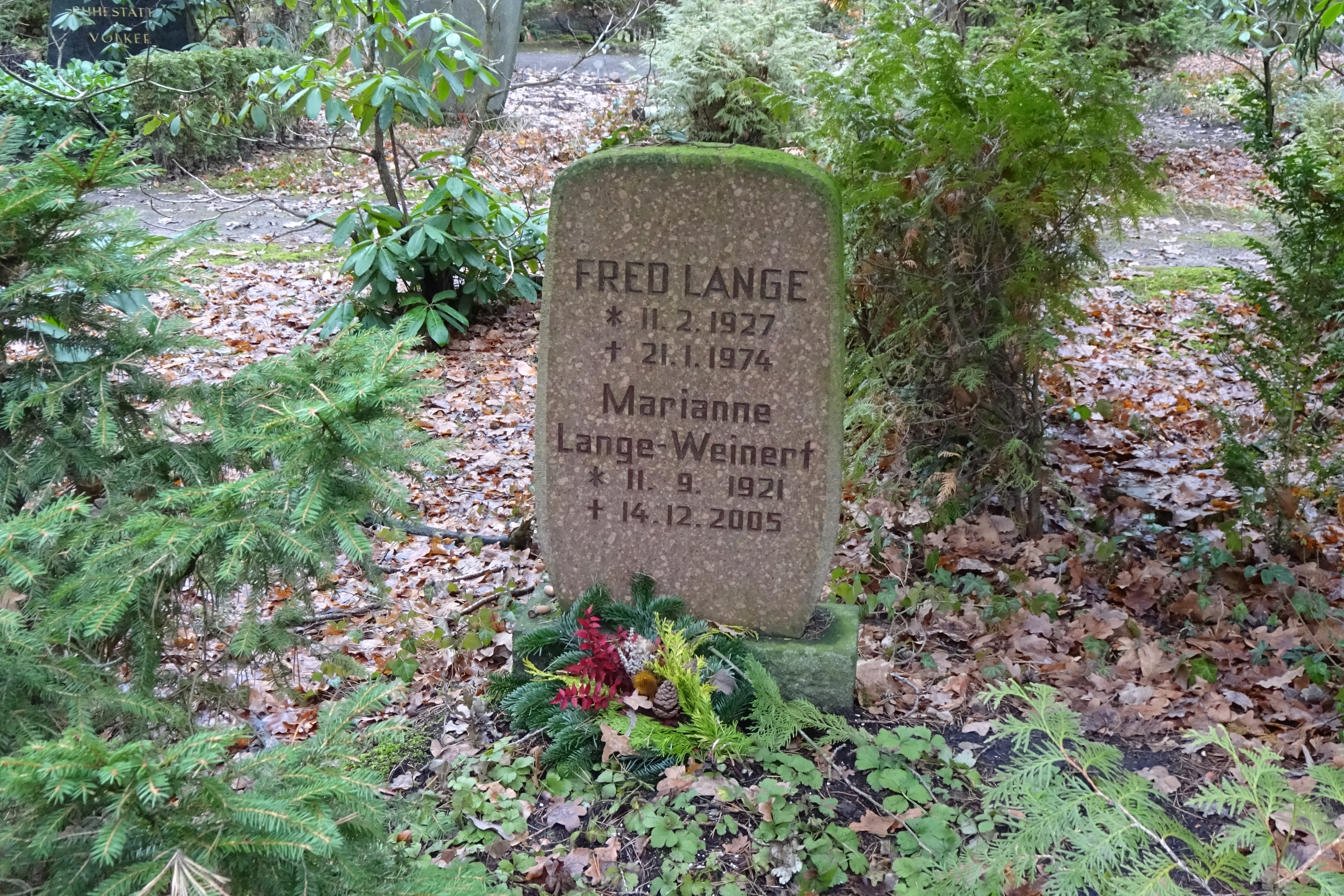 Grave of German author Marianne Lange-Weinert at Waldfriedhof Kleinmachnow, (Kleinmachnow near Berlin)